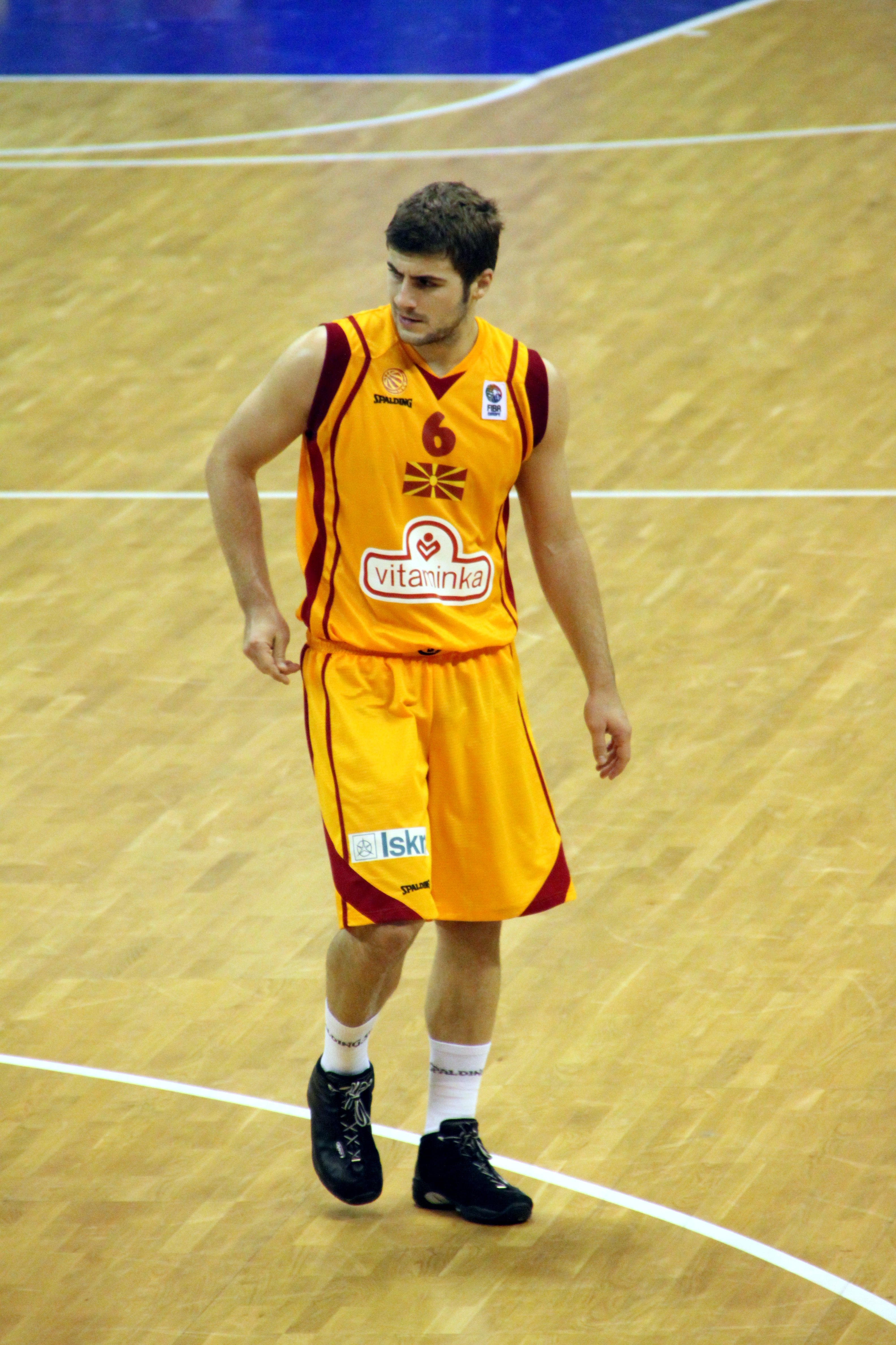 Darko Sokolov, the Point Guard of the National Basketball team of Macedonia... [Macedonia 71-81 Croatia, Eurobasket 2009, Poland] Macedonia 71-81 Croatia